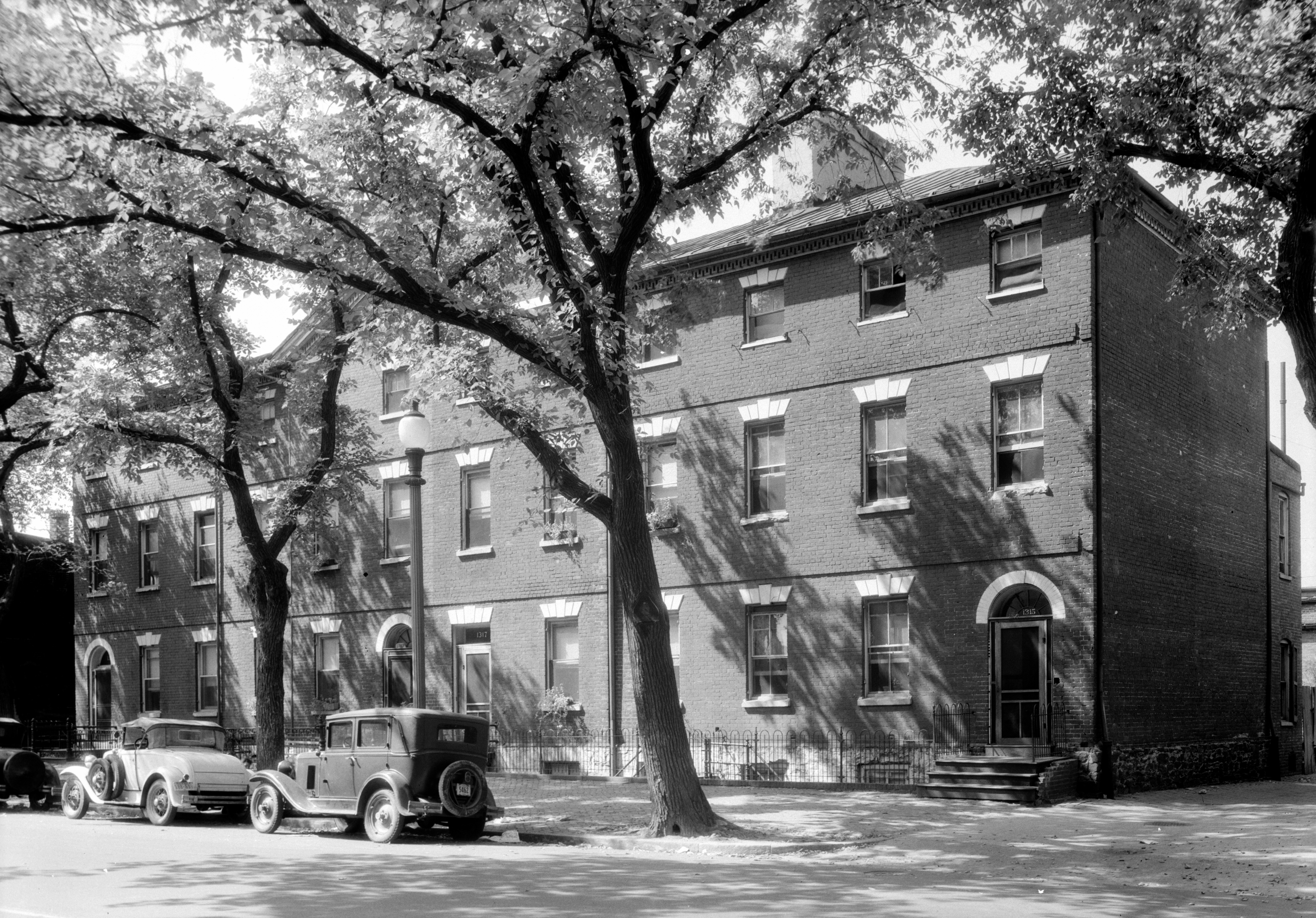 Wheat Row in Washington, D.C., United States.